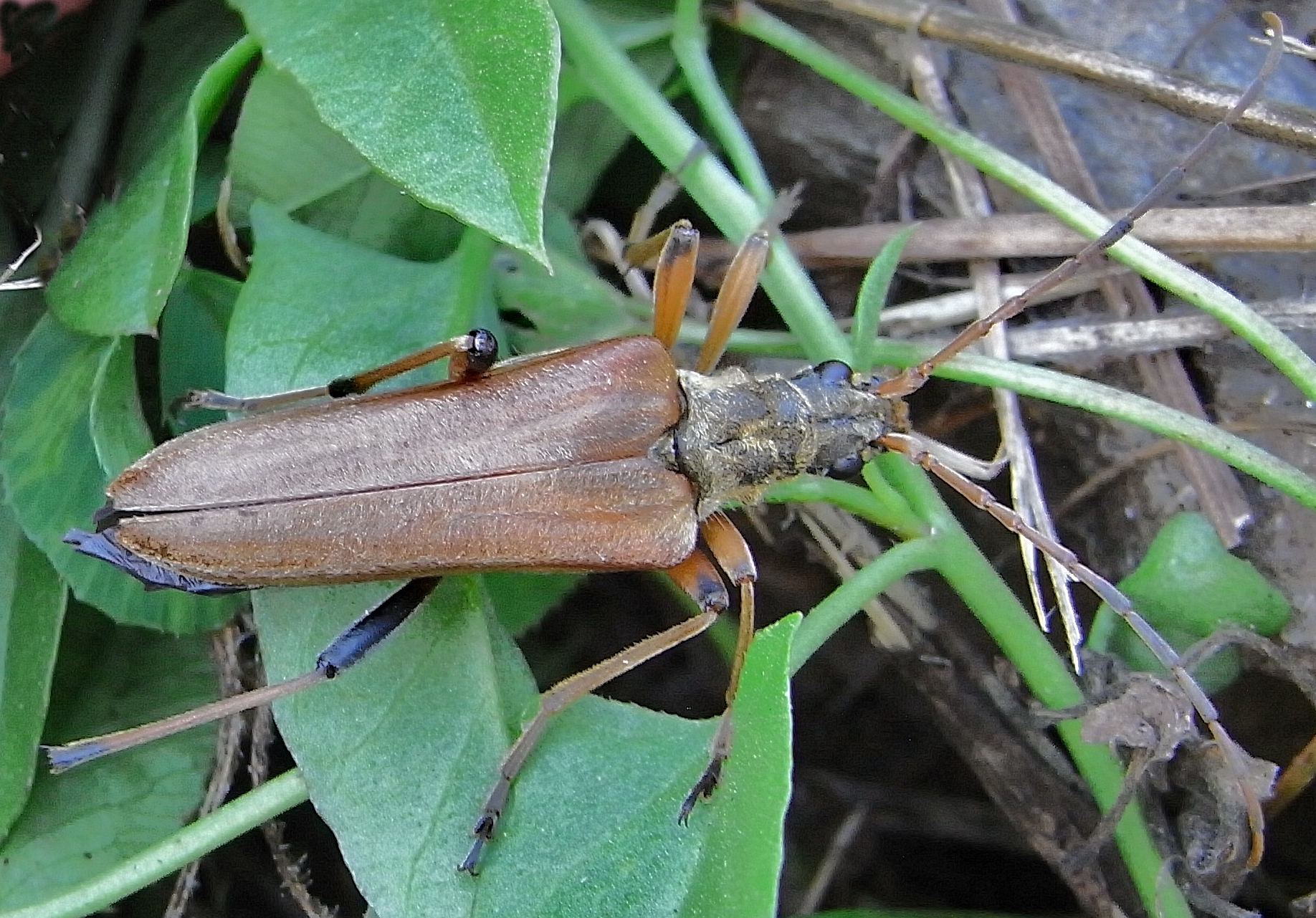 Stenocorus meridianus from Hungary, photographed at 2010-07-01 Ricoh R8